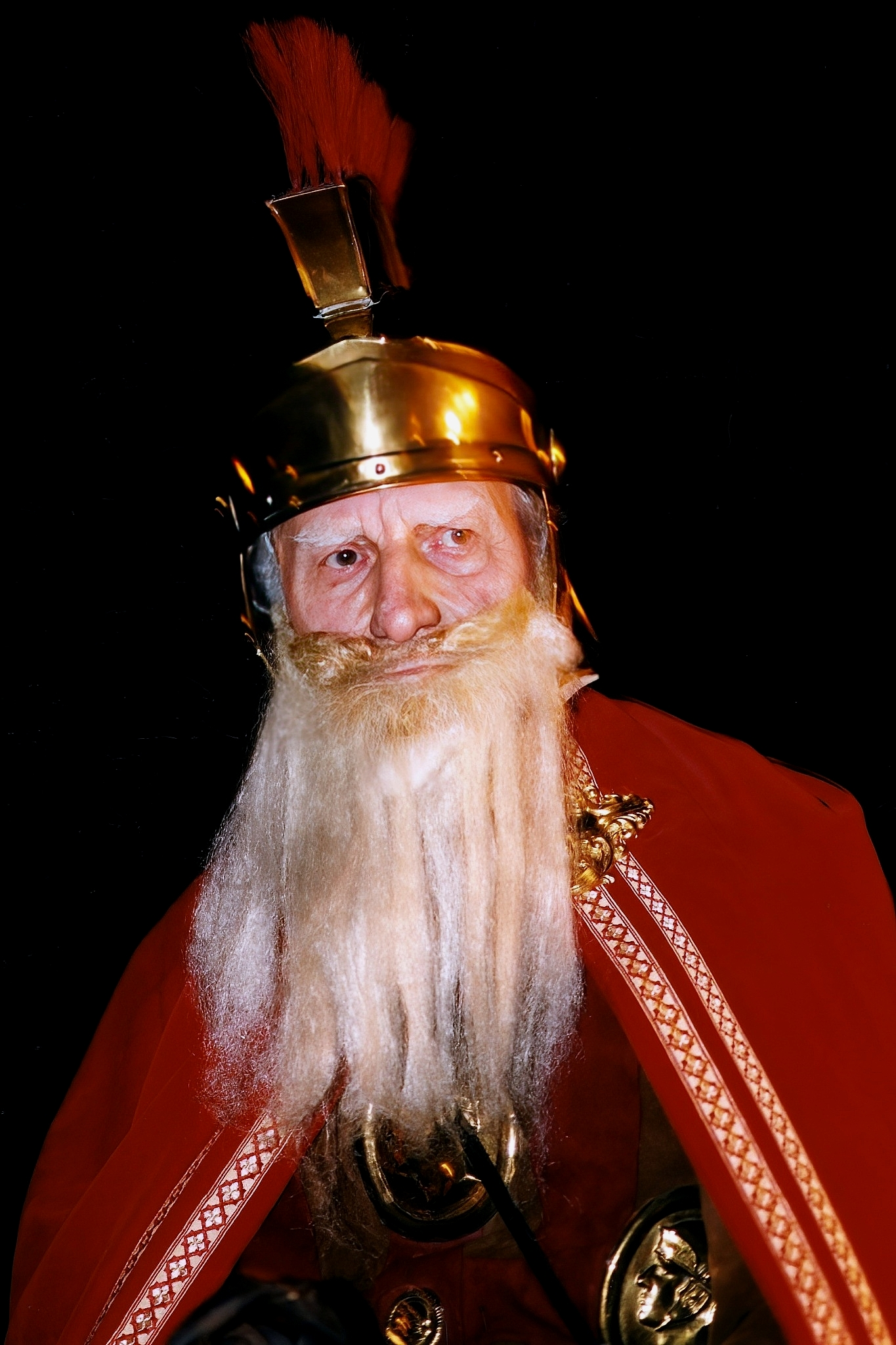 For more than 50 years in a row and till 1999 the 'Saint Martin' of the German town of Doveren, Matthias Jansen.